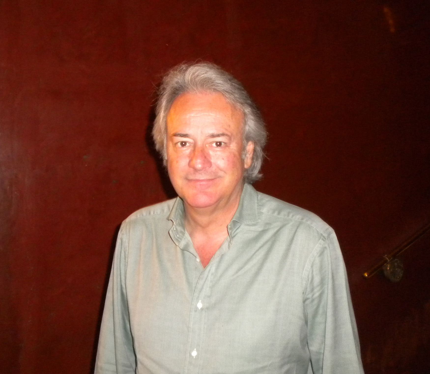 Corrado Tedeschi at Manzoni Theatre, in Milan.